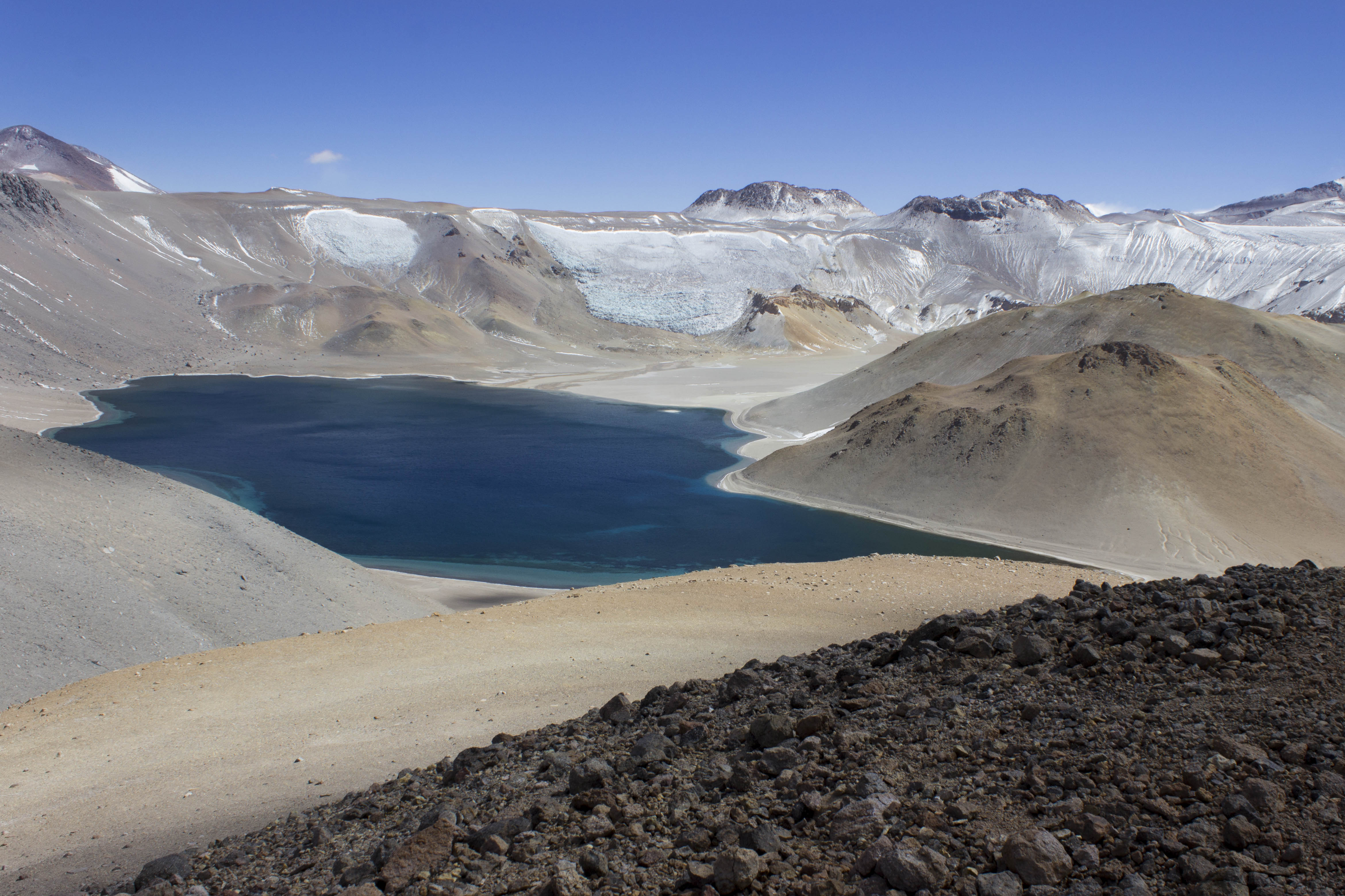 Laguna Corona del Inca a 5400 msnm, La Rioja, Argentina